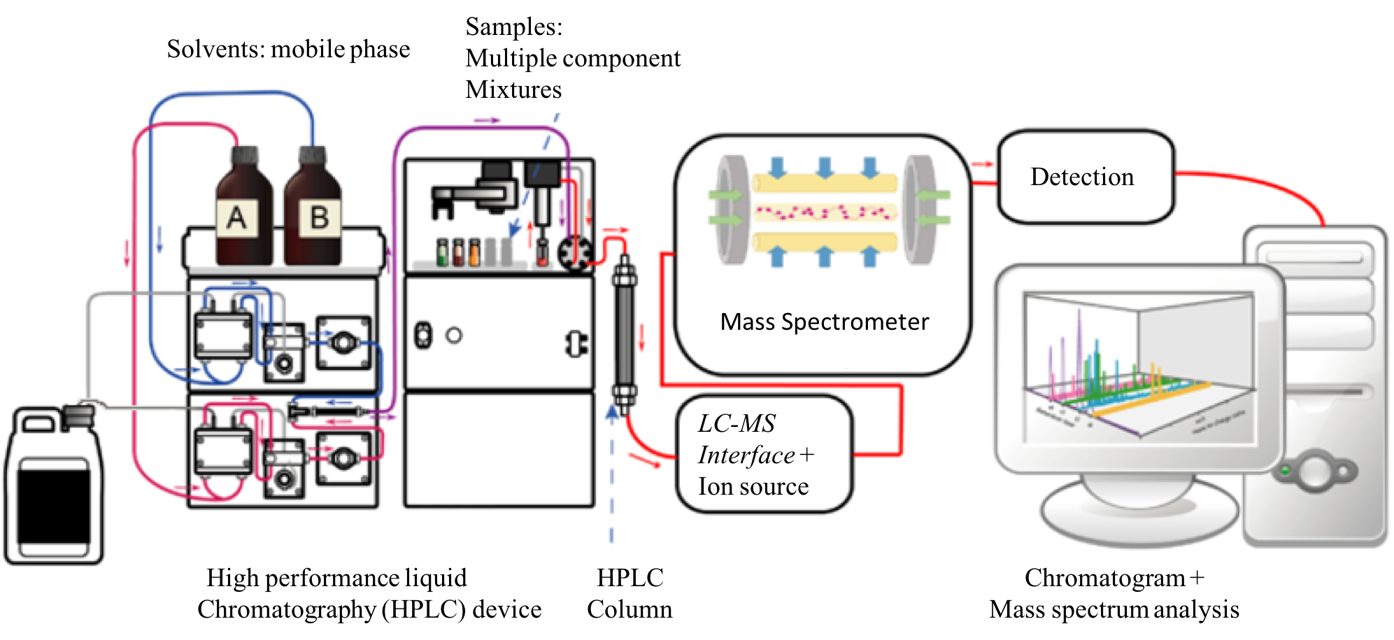 Simple functional diagram of an LCMS system with increased clarity